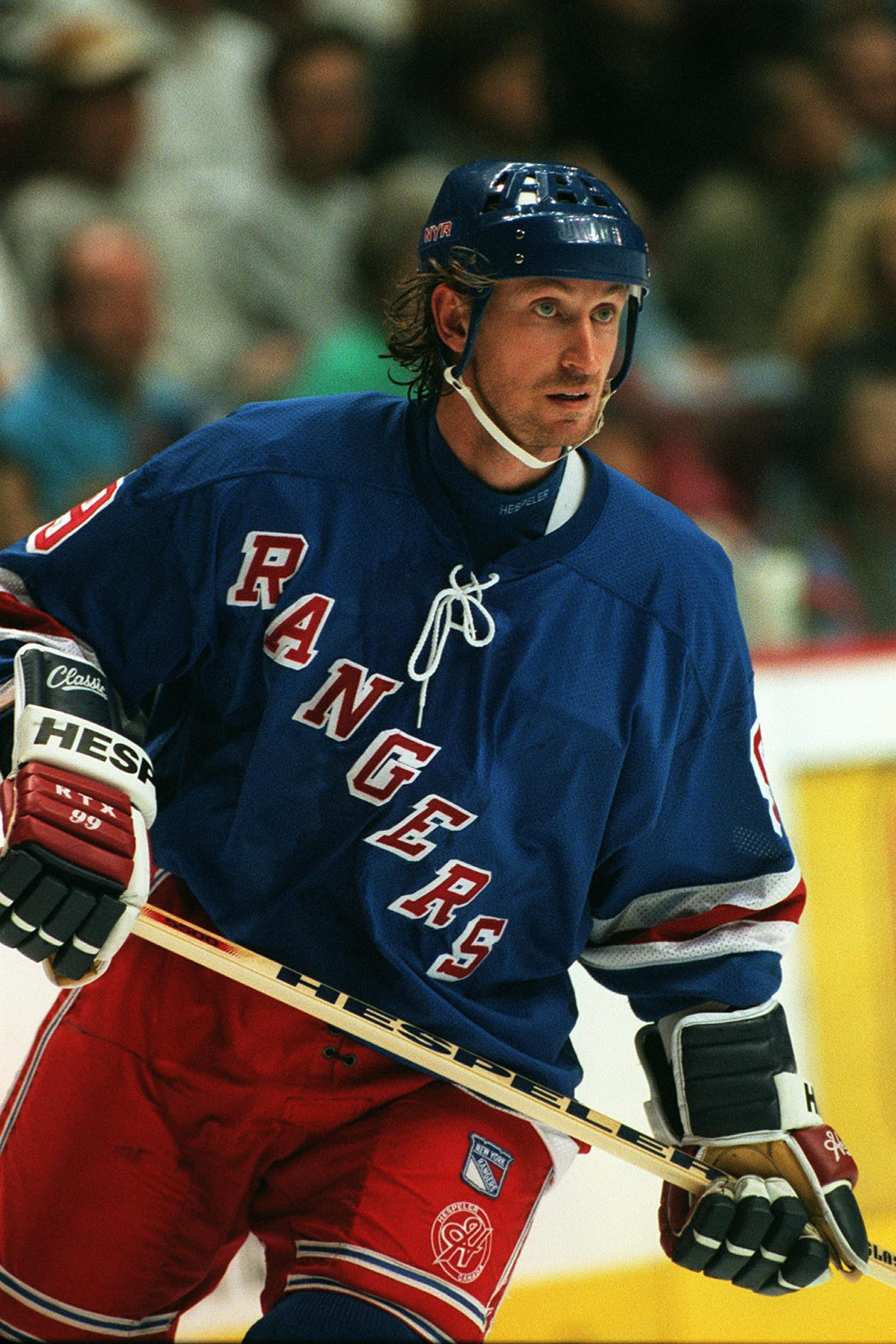 Wayne Gretzky New York Rangers This is a Featured Picture on Wikipedia